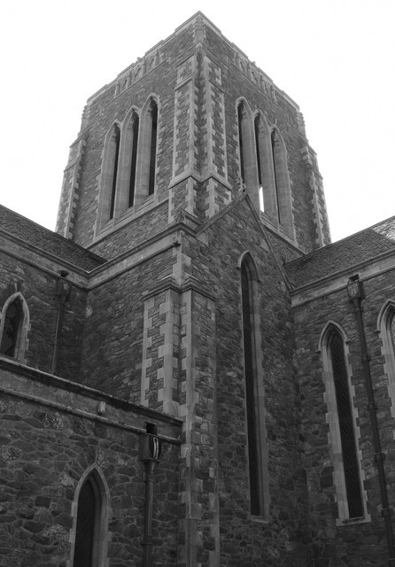 Tower of the abbey church at Mount St Bernard Abbey, Charley, Leicestershire